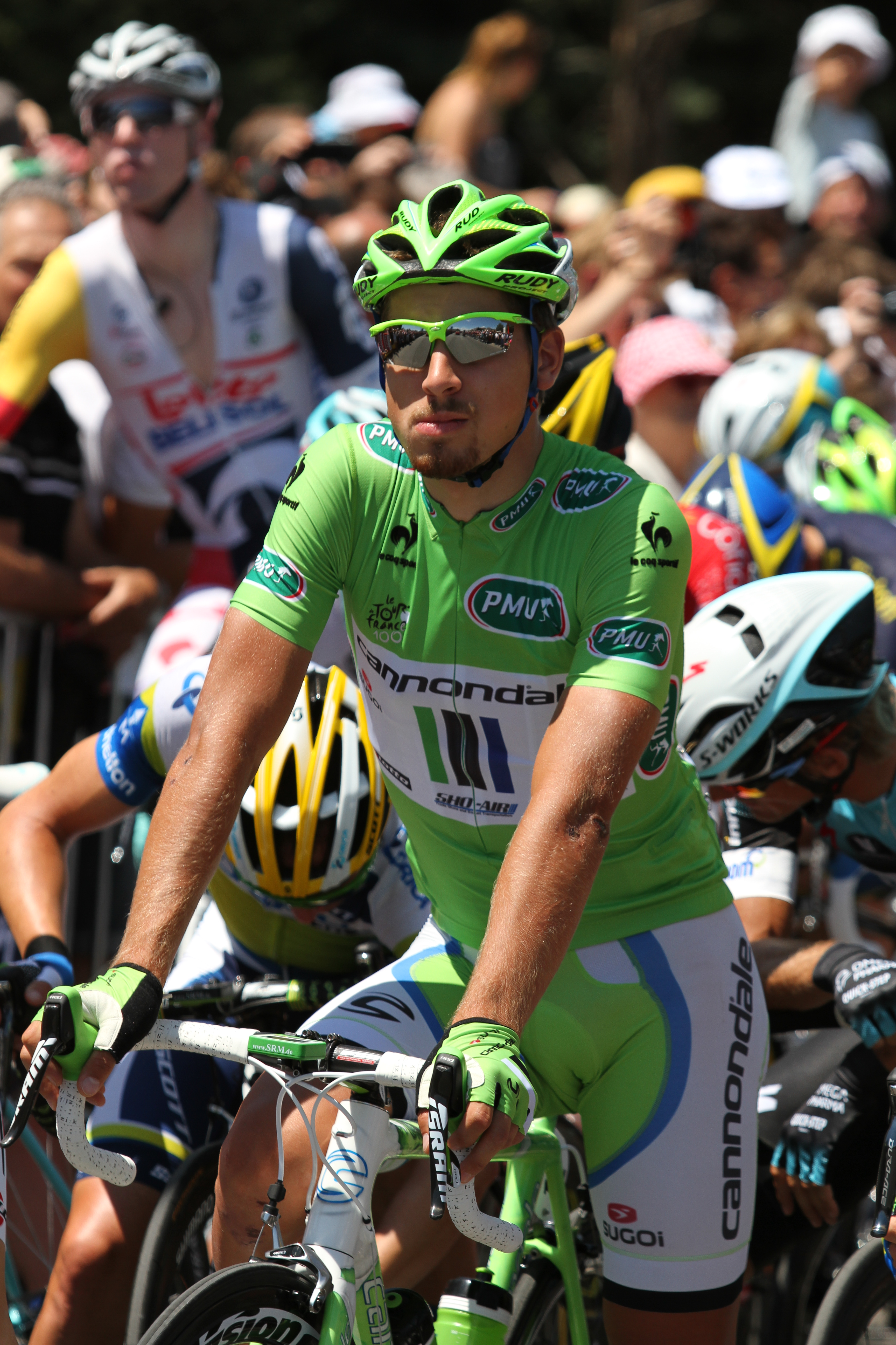 Peter Sagan during Stage 6 of the Tour de France 2013 in Aix-en-Provence (Bouches-du-Rhône, France)